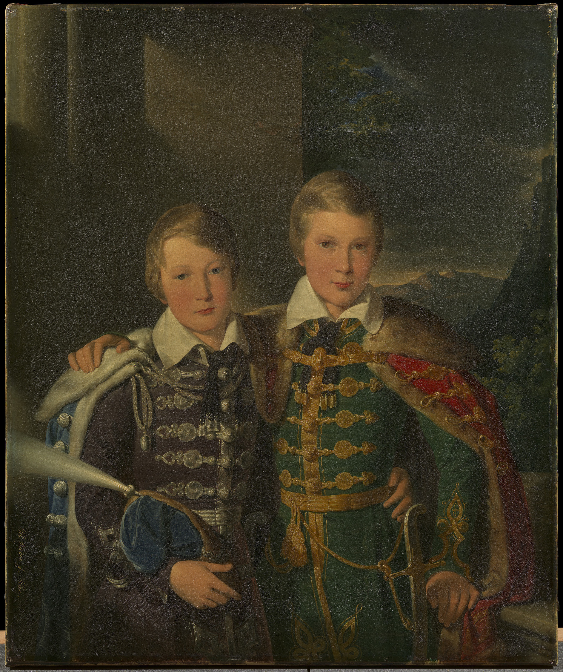 Princes Ferdinand (1816-85) and Augustus (1818-81) of Saxe-Coburg and Gotha when children.